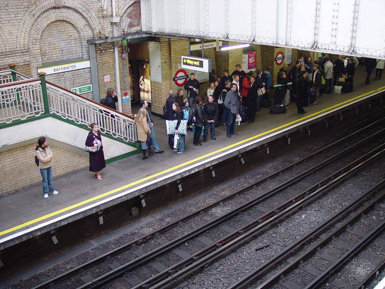 Bayswater Station interior Photo by User:Globe199, 22 March 2003